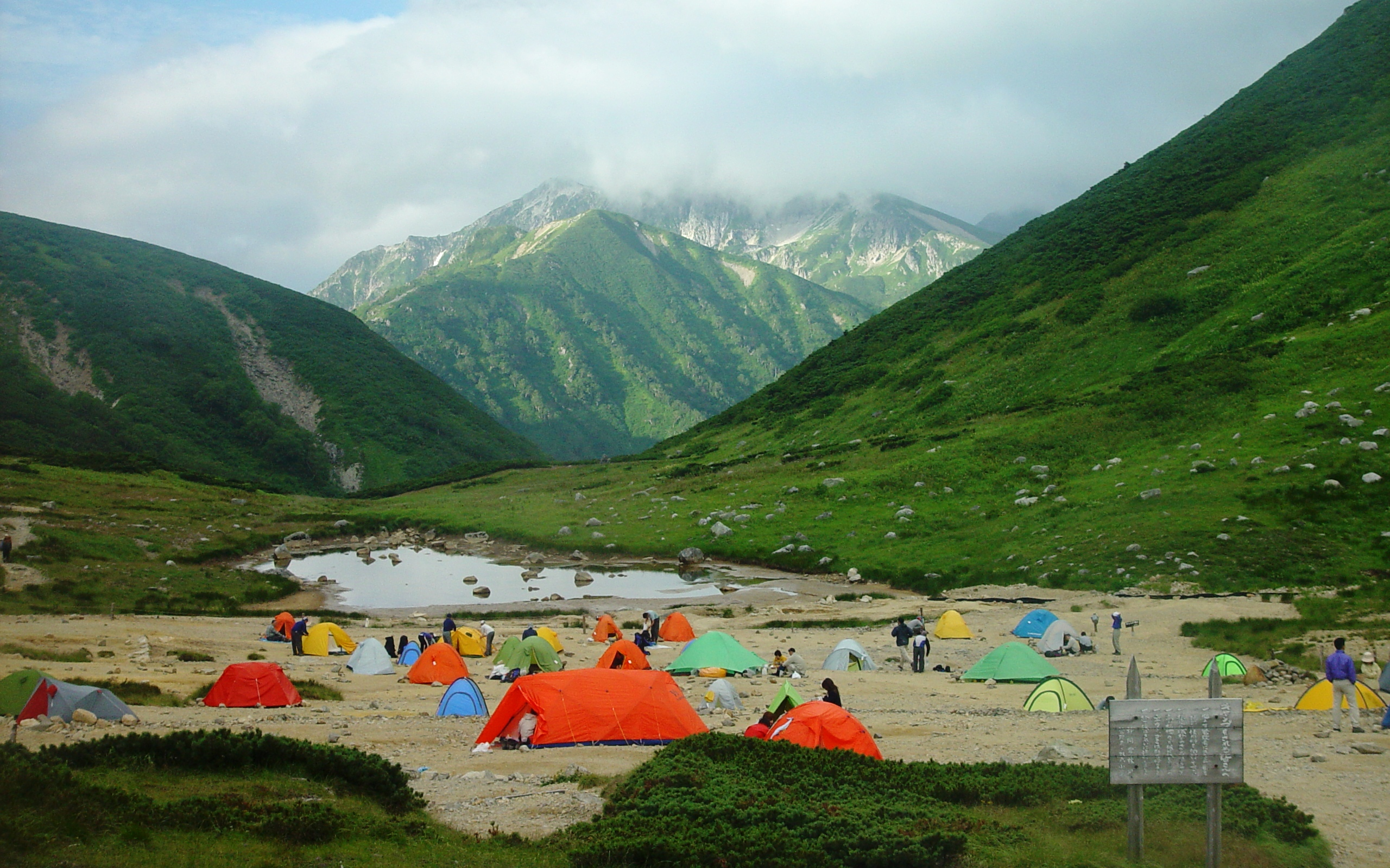 Sugorokugoya (Mountain hut) campsite and Sugoroku pond , in Mount Sugoroku, Nagano pref. and Gifu pref., Japan.